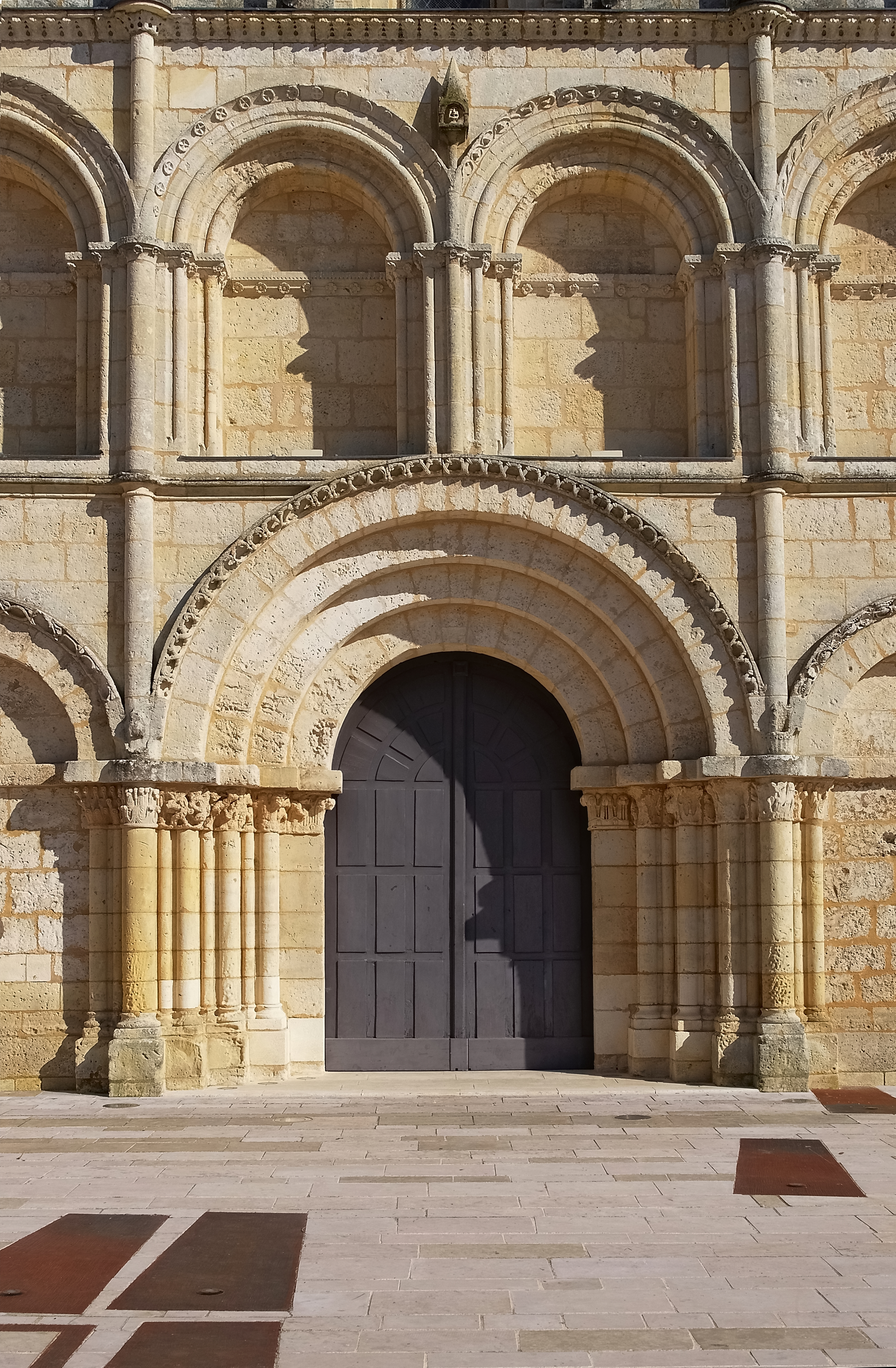 Portal of Saint-Gervais-Saint-Protais church (12th, 15th and 19th centuries), Jonzac, Charente-Maritime, France.